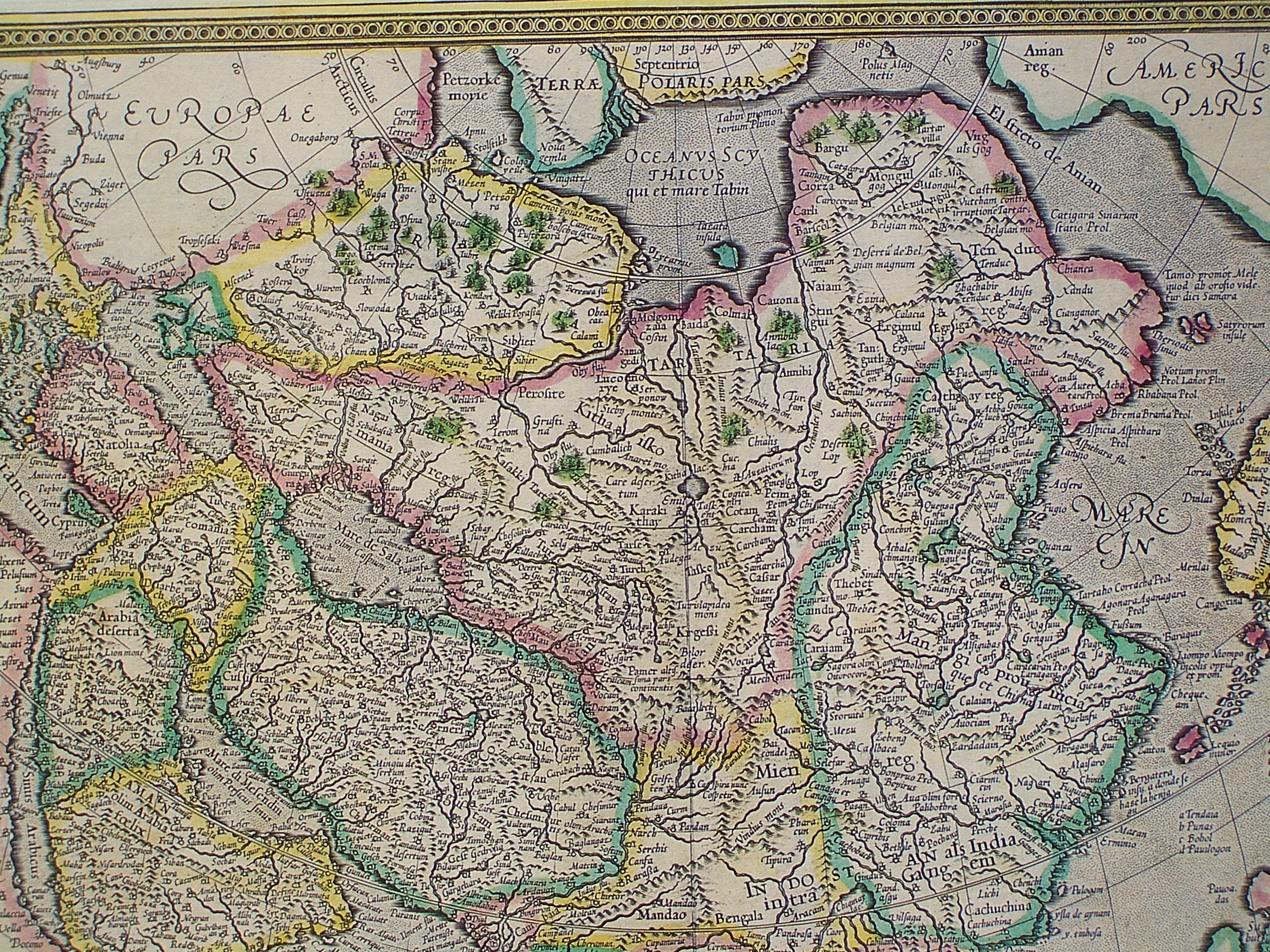 Asia from the great World [atlas] described by Gerhard Mercator, selected with zeal and diligence by Gerhard Mercator the Younger